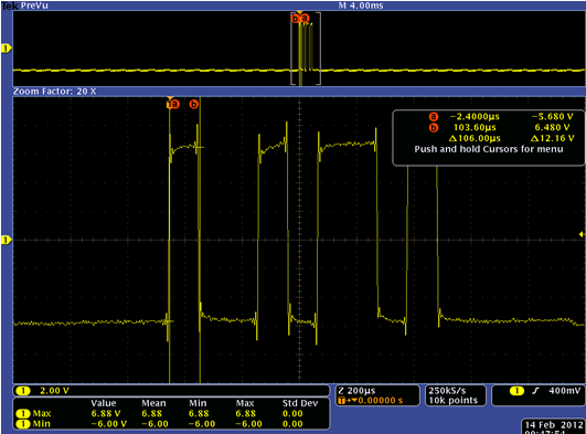 RS232 signalling as seen when probed by an actual oscilloscope (Tektronix MSO4104B) for an uppercase ASCII "K" character (0x4b) with 1 start bit (always), 8 data bits, 1 stop bit and no parity bits (8N1)